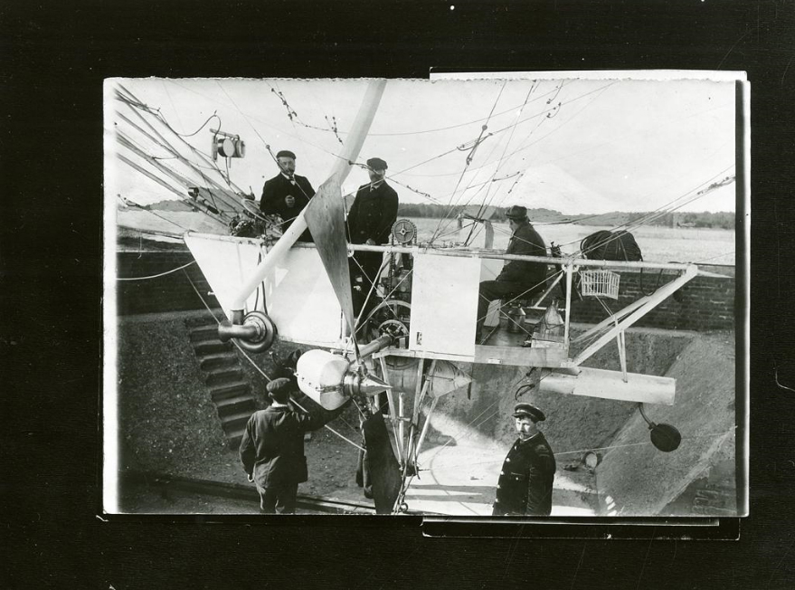 Three men are in a gondola of a semi-rigid Lebaudy airship and beside it on the ground are two men. The first experimental Lebaudy airship was built in 1902. Paul and Pierre Lebaudy were the owners of a sugar refinery who, with the assistance of their engineer Henri Julliot as designer, built semi-rigid airships which saw service with the French army, the Russian army and the Austrian army.